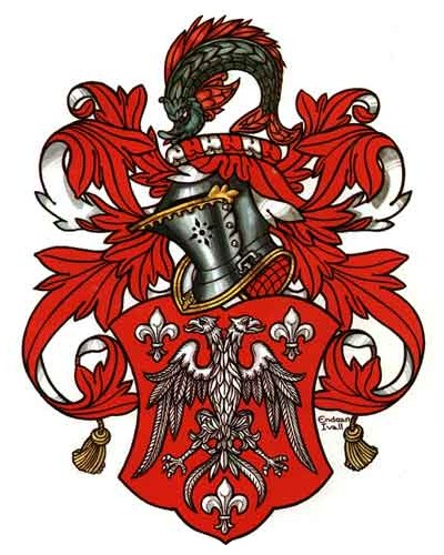 Coat of arms of the Godolphin family